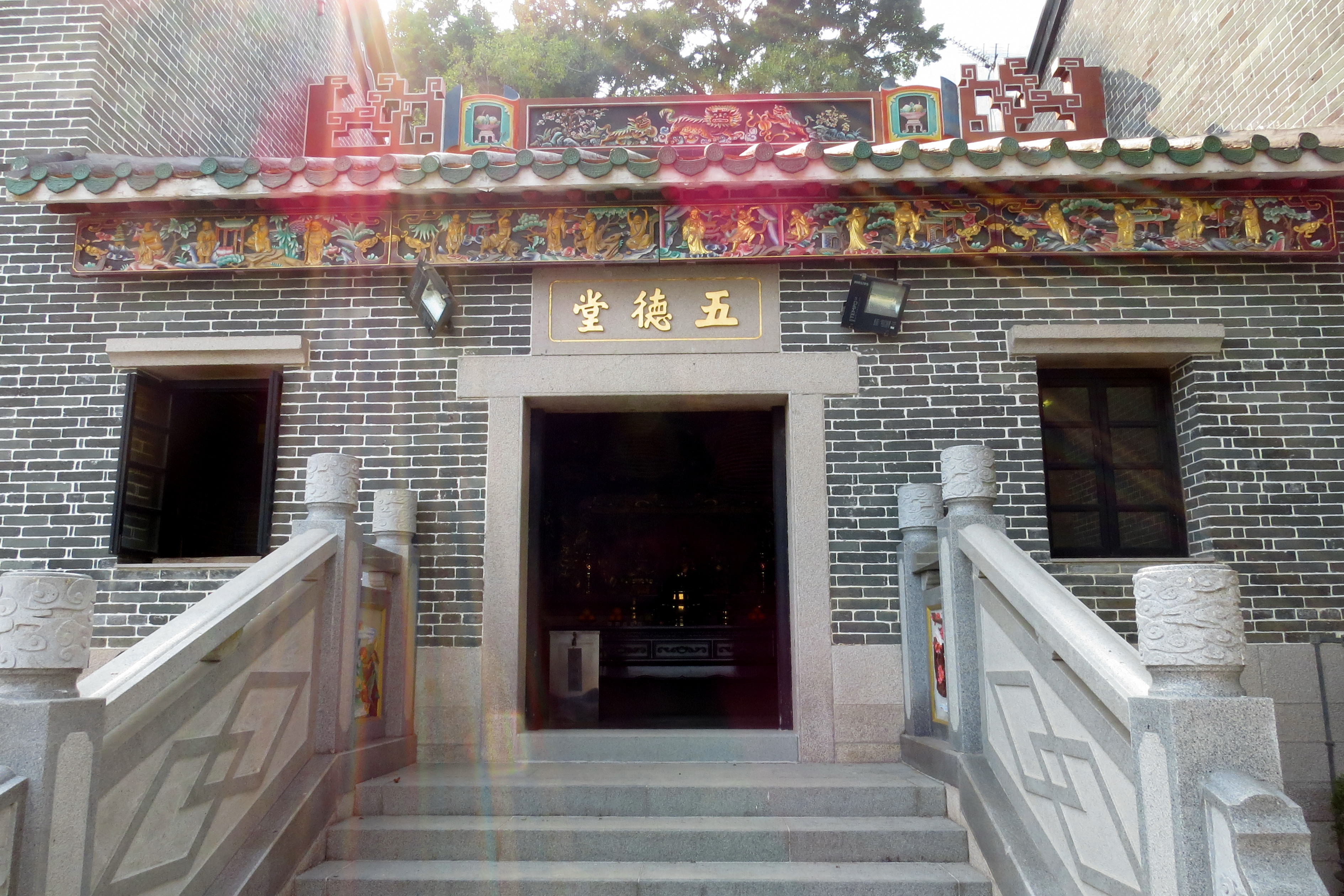 Five Virtues Hall, Tsing Wan Kwun, Castle Peak, Tuen Mun, New Territories, Hong Kong.